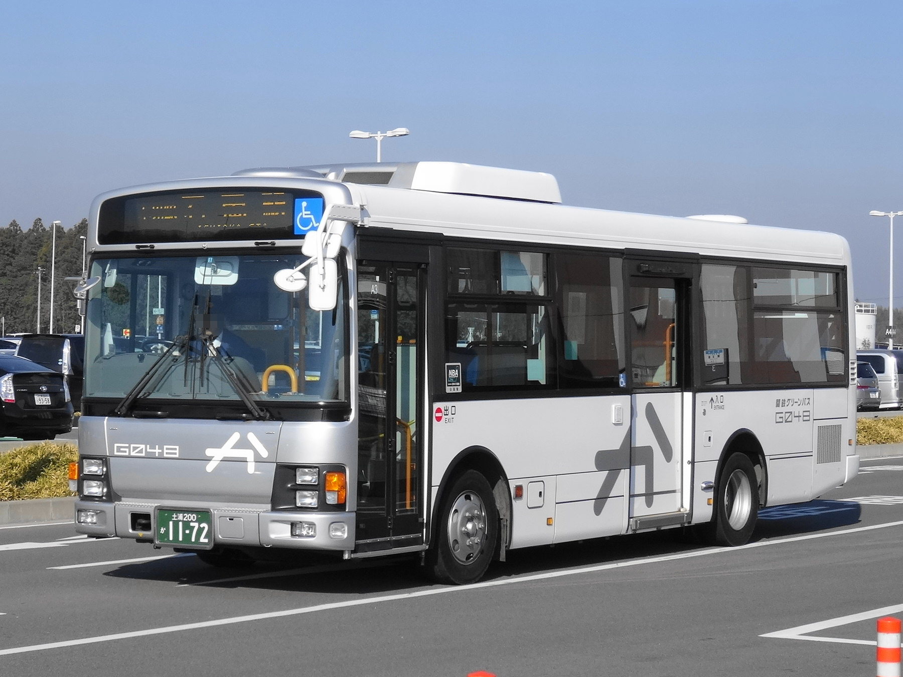 Ibaraki Airport to Ishioka Station